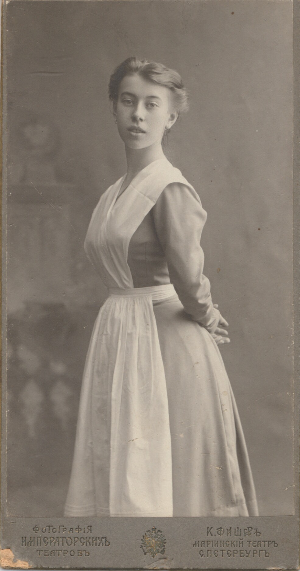 Photograph of Bronislava Nijinska, graduation picture, 1908. Music Division, Library of Congress.